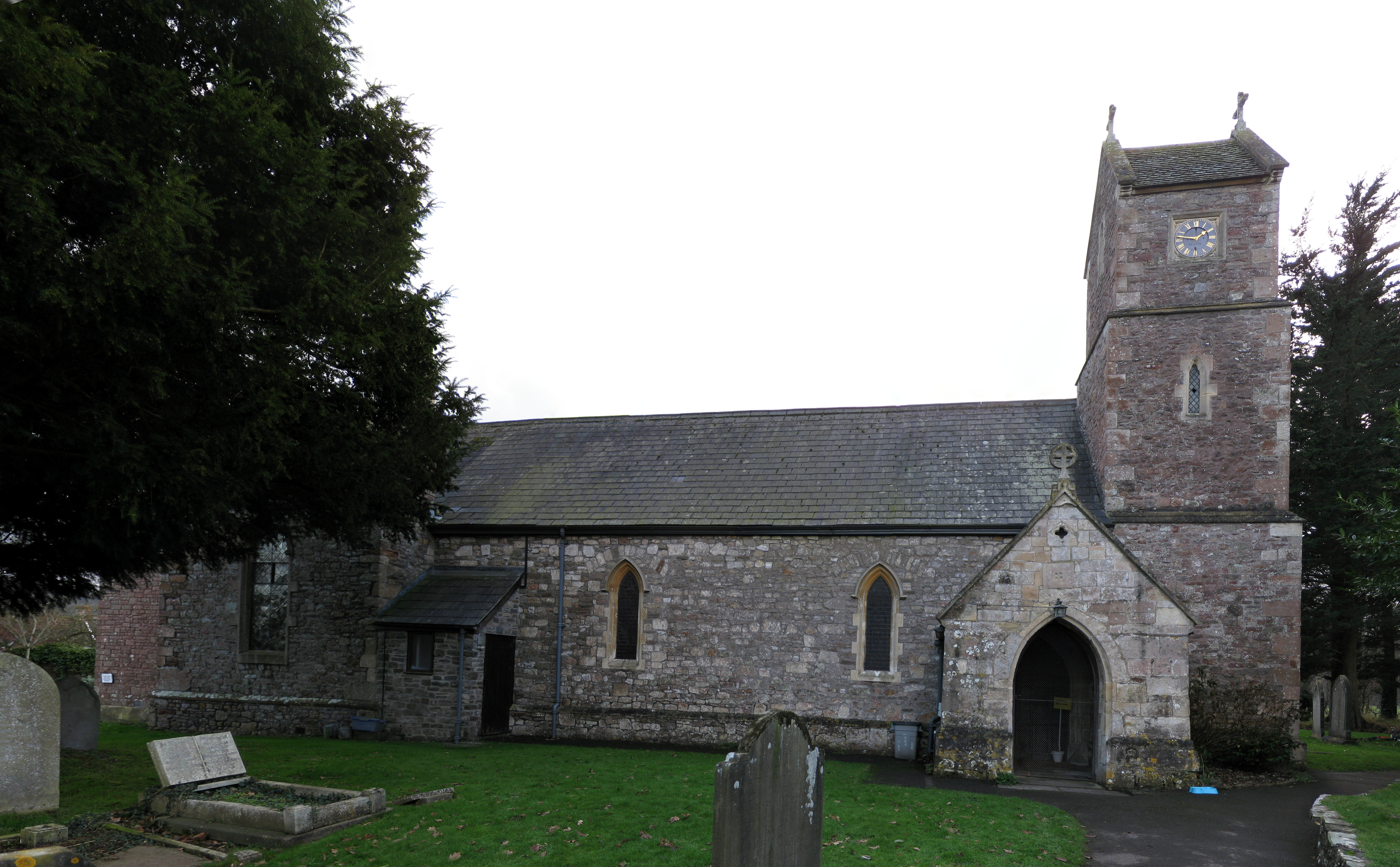 Stitched panorama of the Church of St Paul in Walton in Gordano. This image contains stitching errors and should, if possible, be replaced by a better version